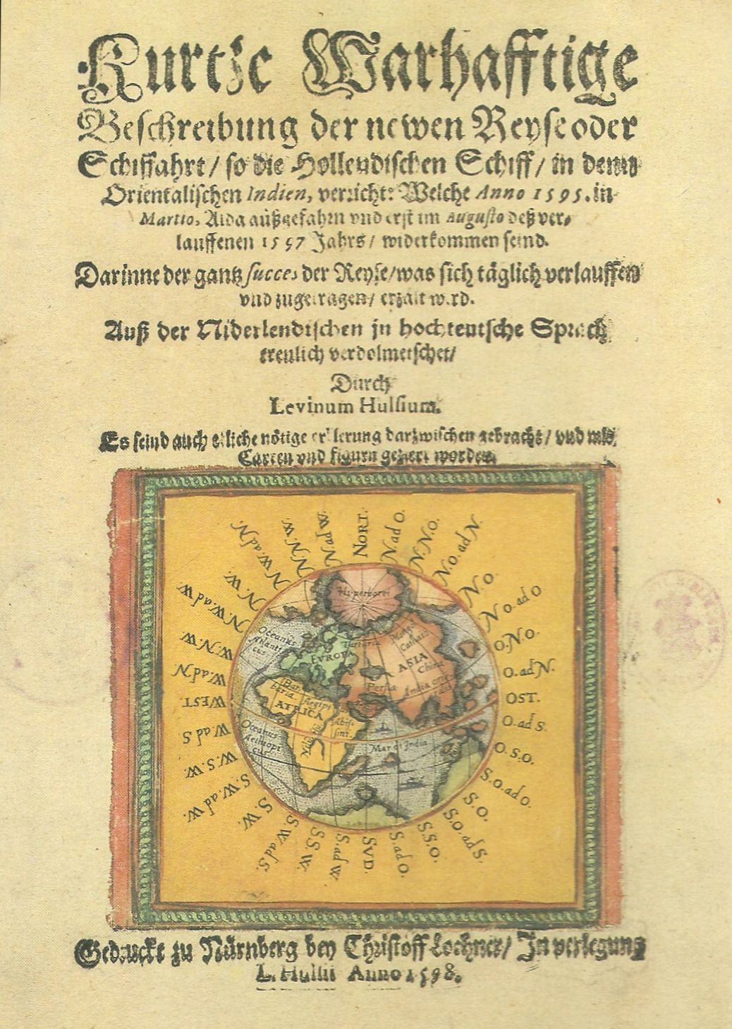 German translation of the 1595-1597 adventures of Dutch explorer Cornelis de Houtman, edited by Levinus Hulsius 1598 in Nuremberg